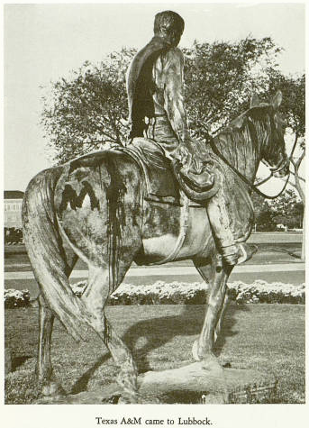 Riding Into the Sunset after being vandalized with paint including the Texas A&M Aggies logo.